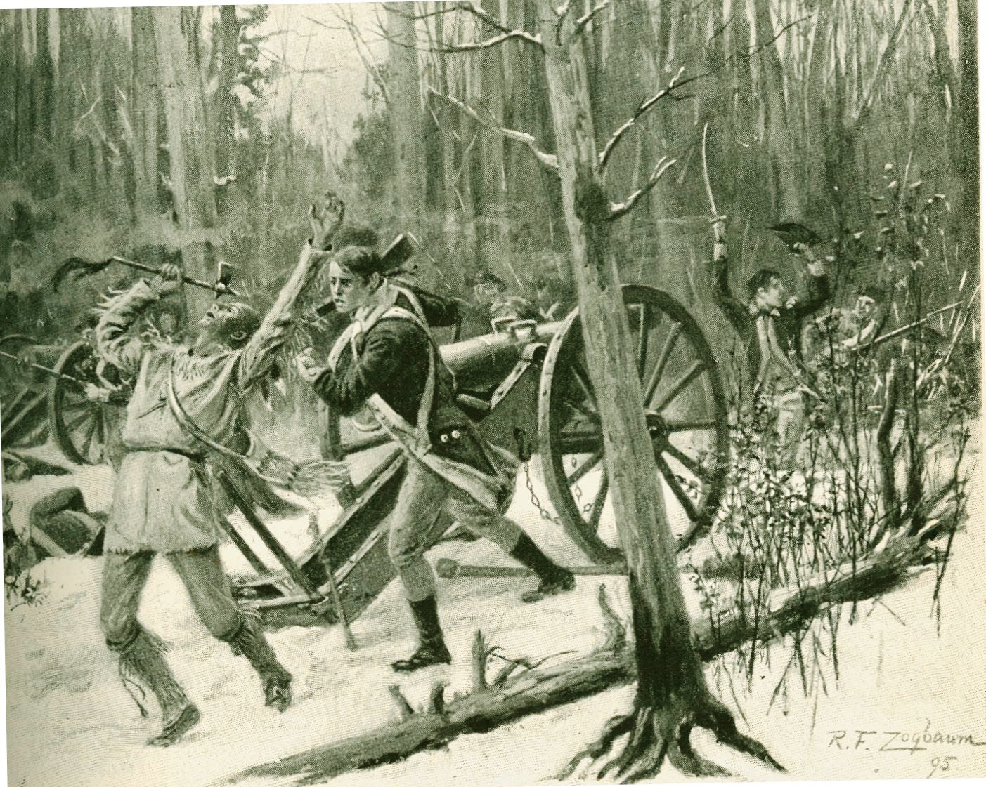 This painting accompanied Theodore Roosevelt's article on St. Clair's Defeat, featured in the February 1896 issue of 'Harper's New Monthly Magazine.'